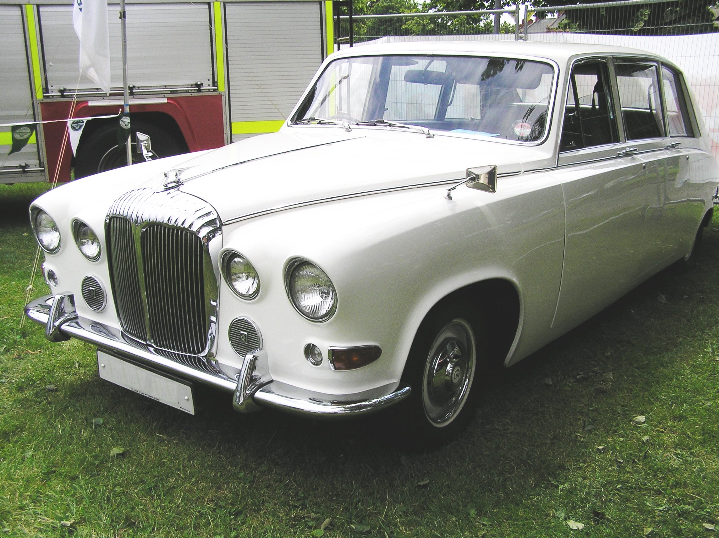 Daimler DS420 limousine, photographed in the UK